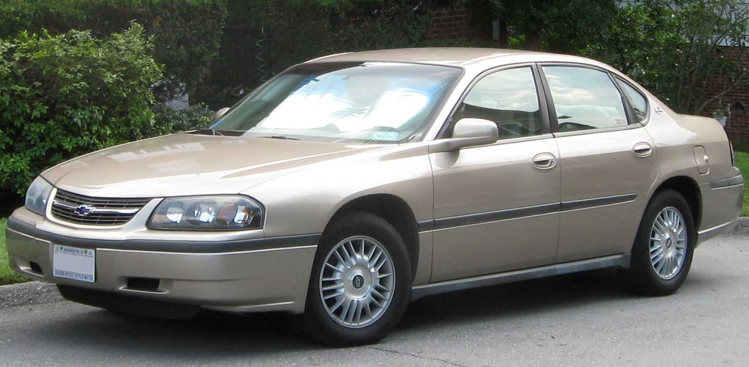 2003-2005 Chevrolet Impala photographed in Washington, D.C., USA.